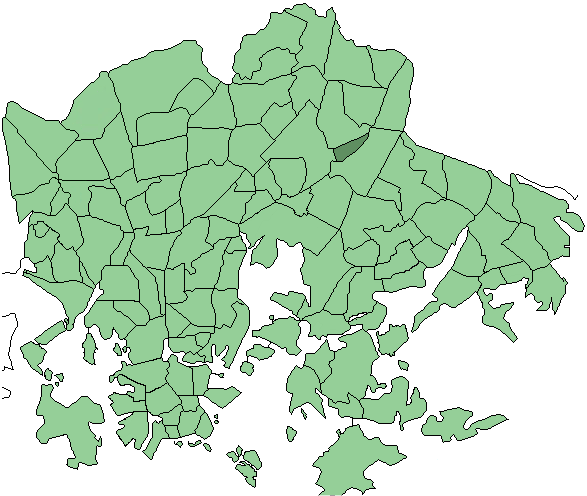 Districts of Helsinki, Tattariharju highlighted